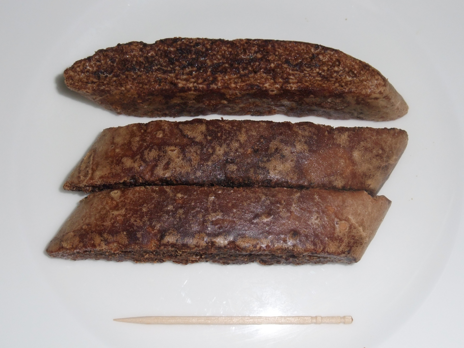 Kurobō, Wagashi from Kyūshū area, Japan